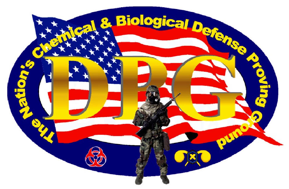 Dugway Proving Ground Logo